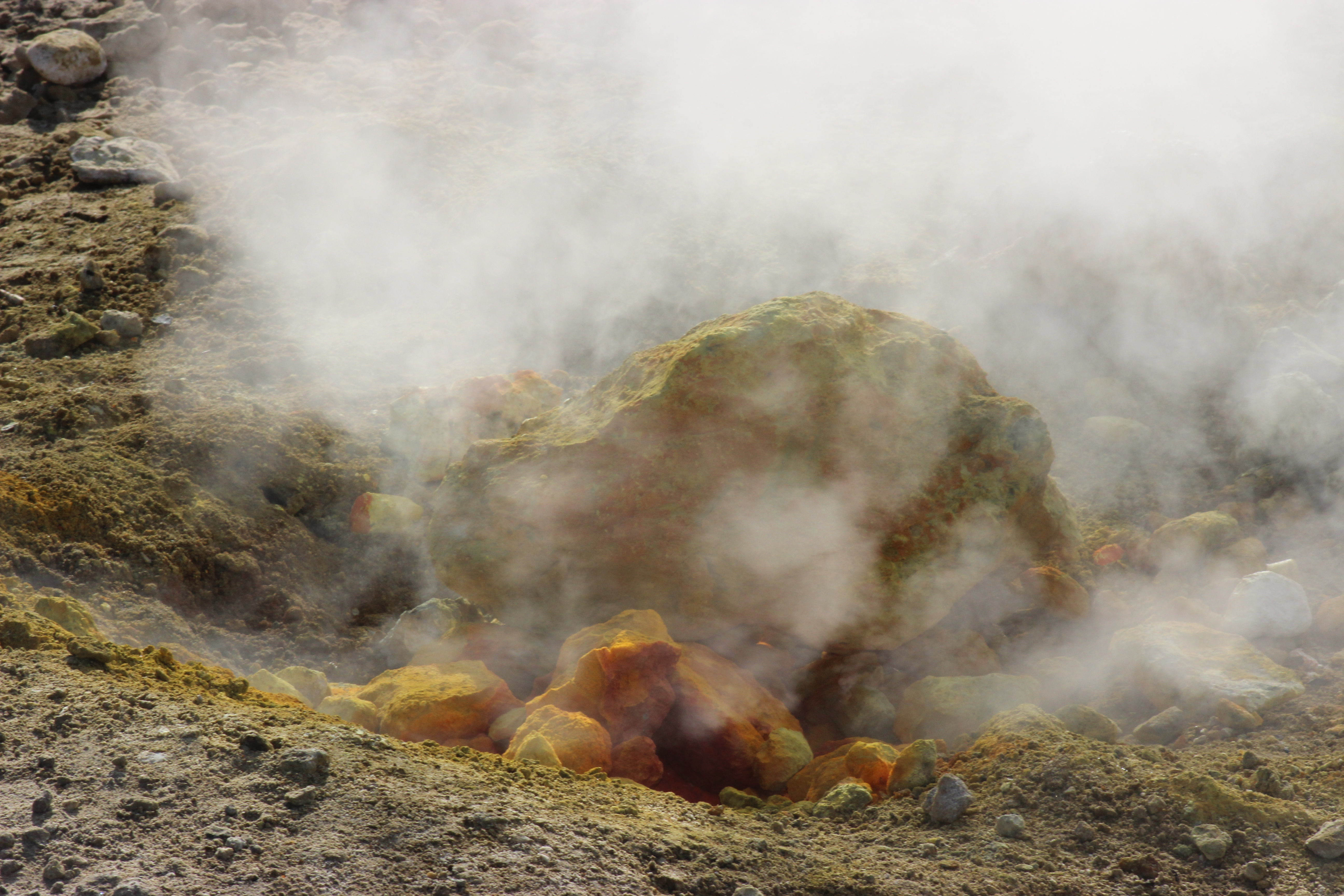 Fumarola of Solfatara volcano - Campania, Italy.